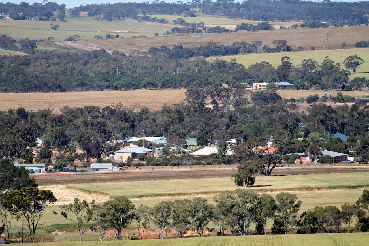 Brookton, Western Australia from the lookout west of the town